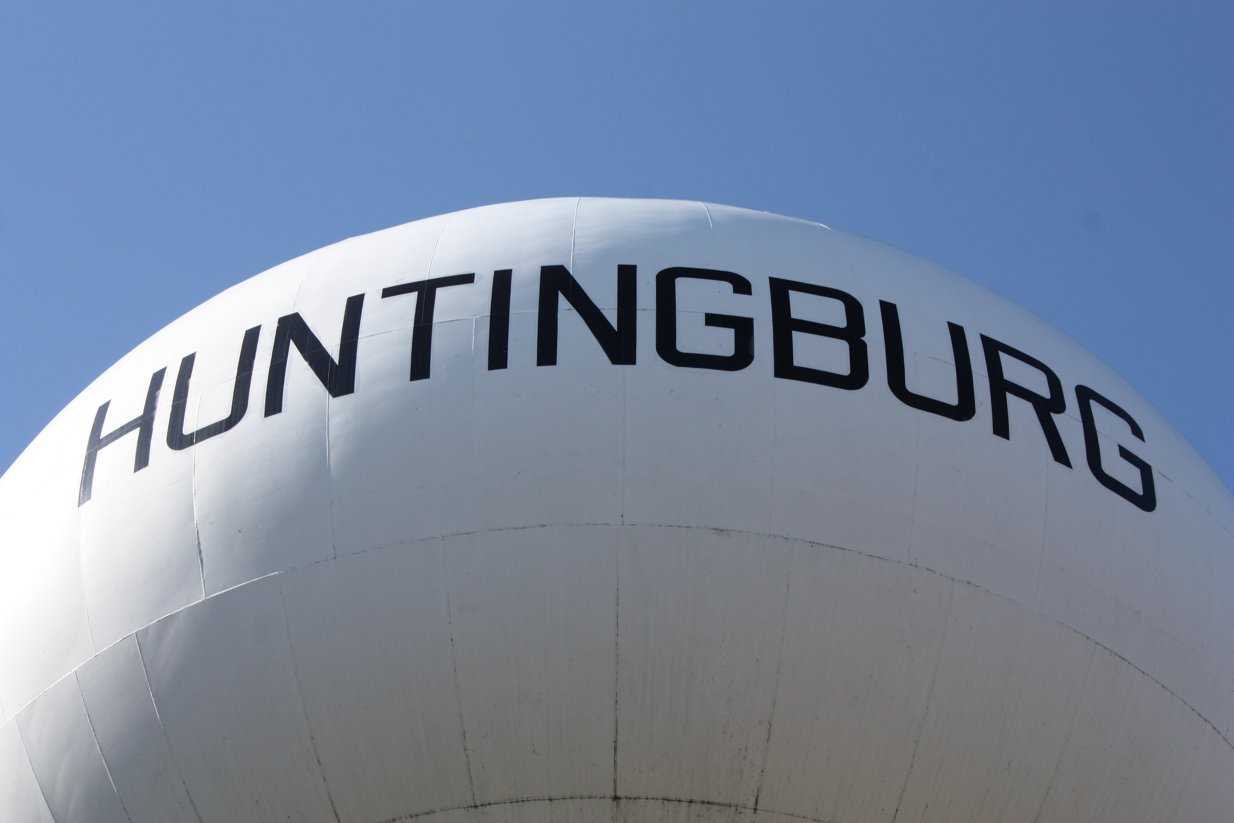 Signage on local water tower in Huntingburg, Indiana.